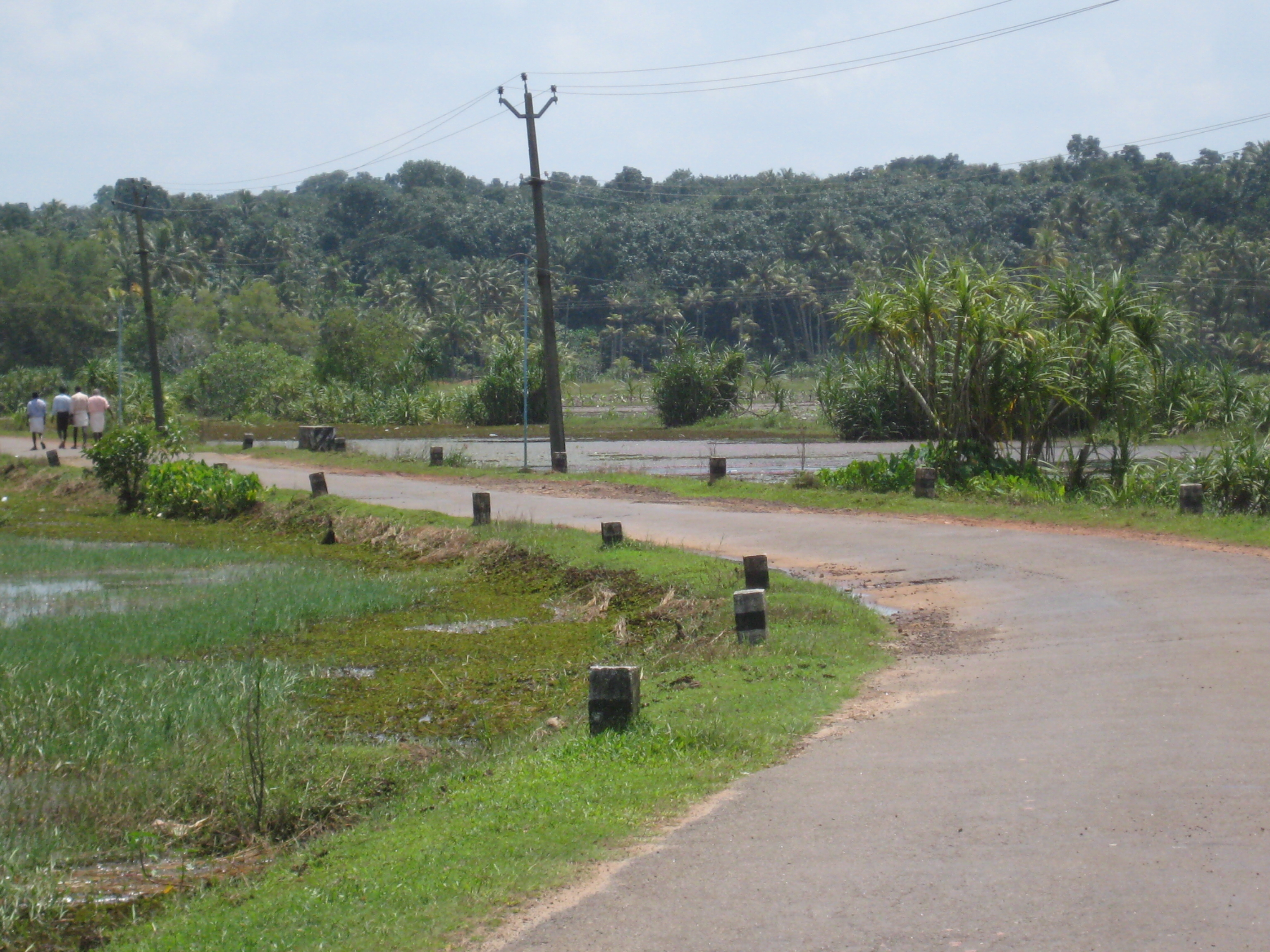 Vinod. N., Self taken photo of the Ayamkudy Village using my Digital Camera. I am working in an MNC in Chennai. I have contributed many pages to Wikipedia